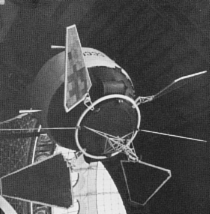 Proton 1 and 2 satellites before launch